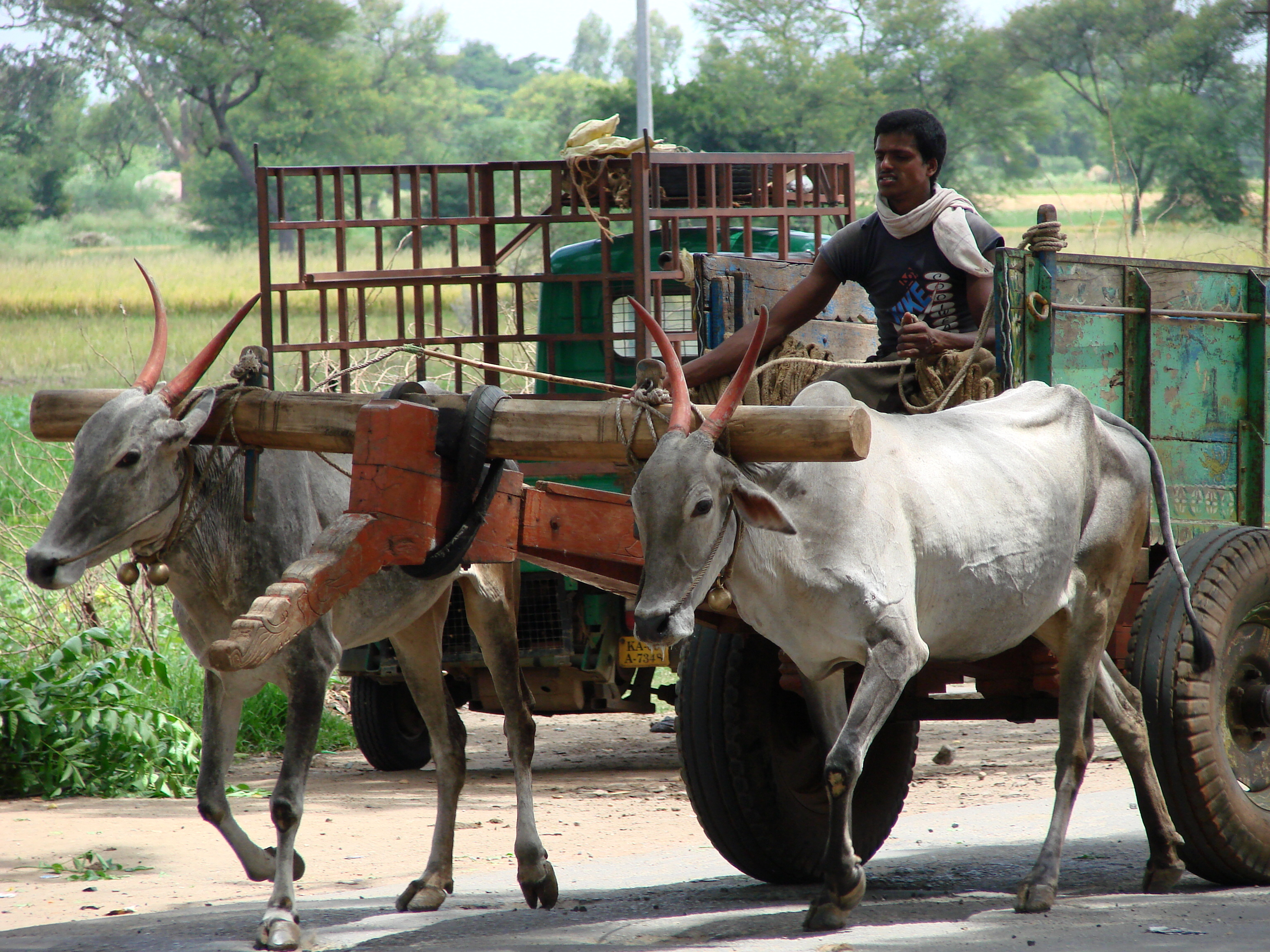 Bullock cart and driver at a crossroads near Mysore, en route to Somnathpur, India. June 2008.